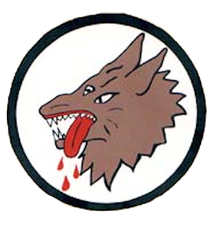 Emblem of the 454th Bombardment Squadron (World War II)